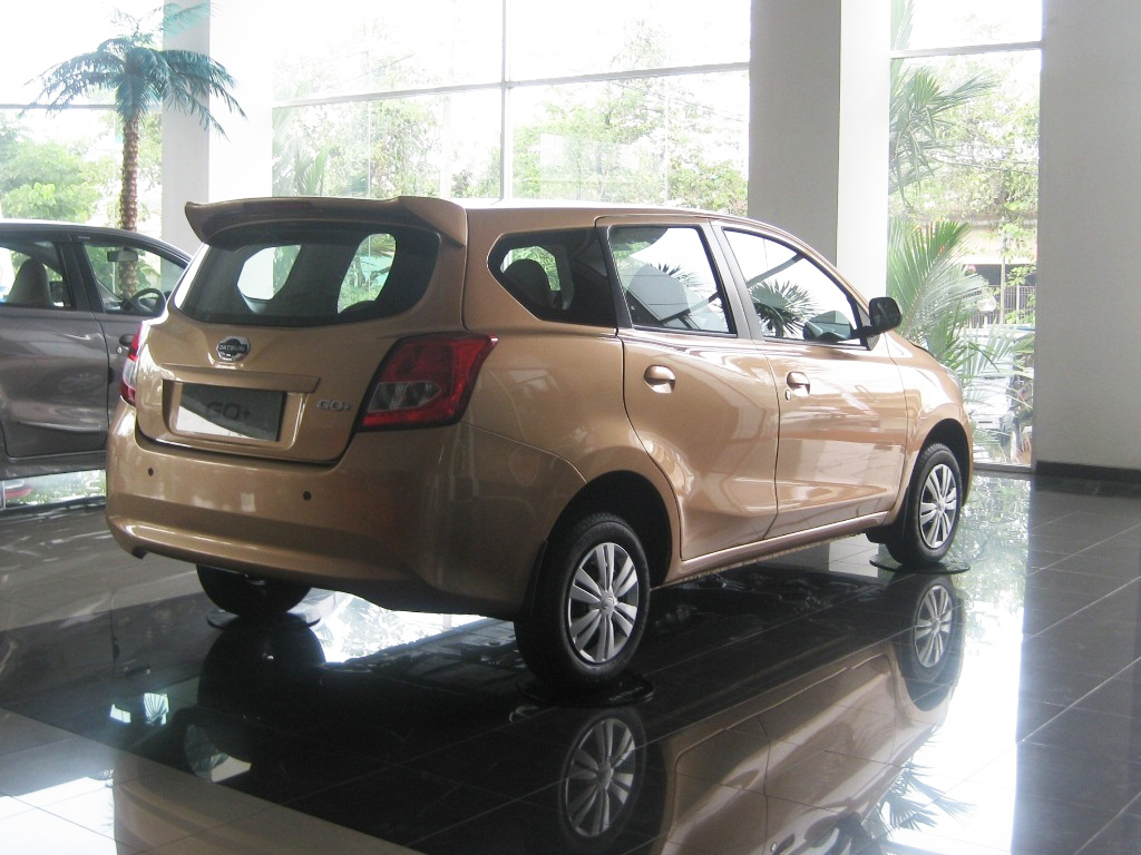 2014 Datsun GO+ 1.2 photographed in Jakarta, Indonesia.